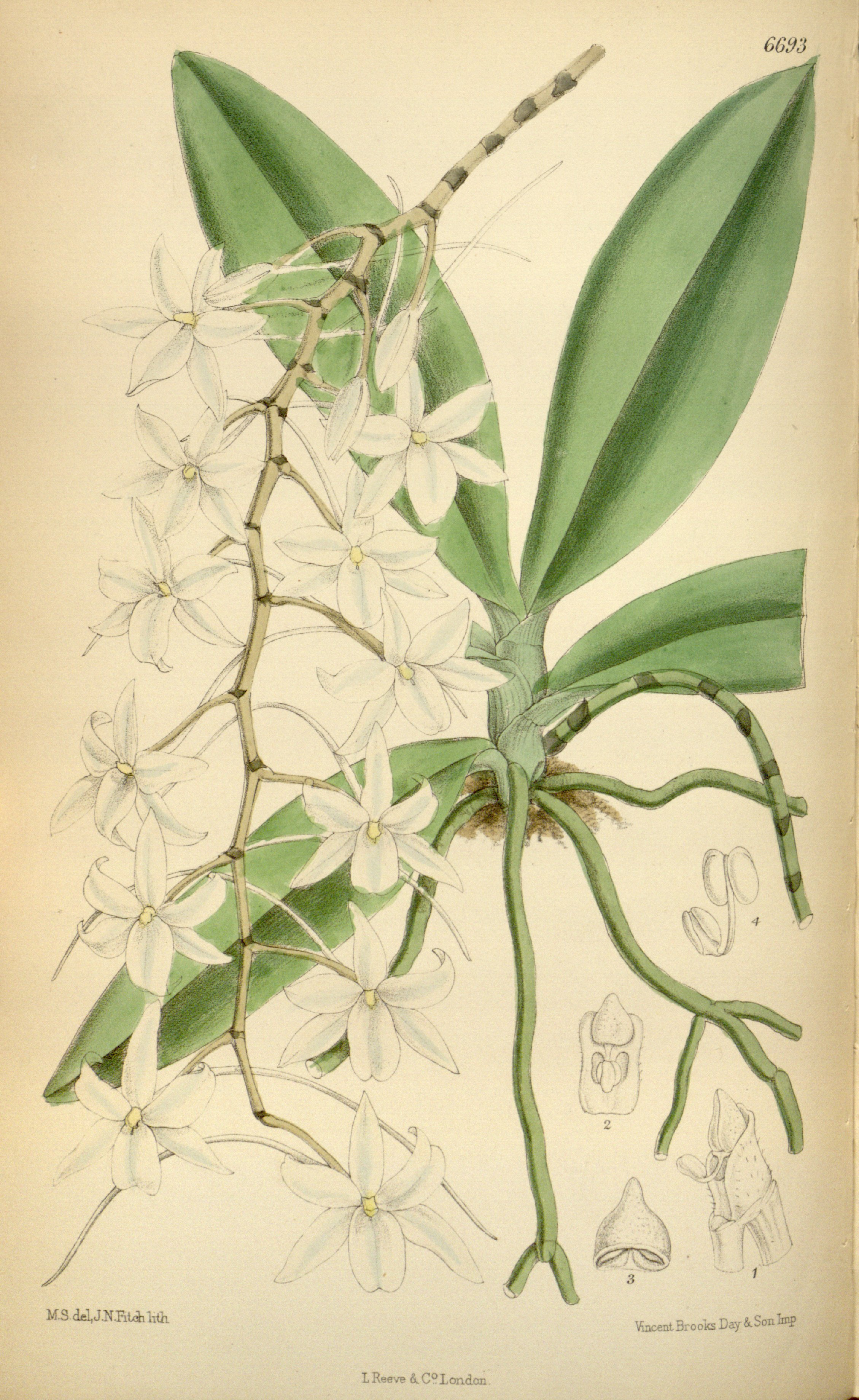 Illustration of Aerangis modesta (as syn. Angraecum modestum)